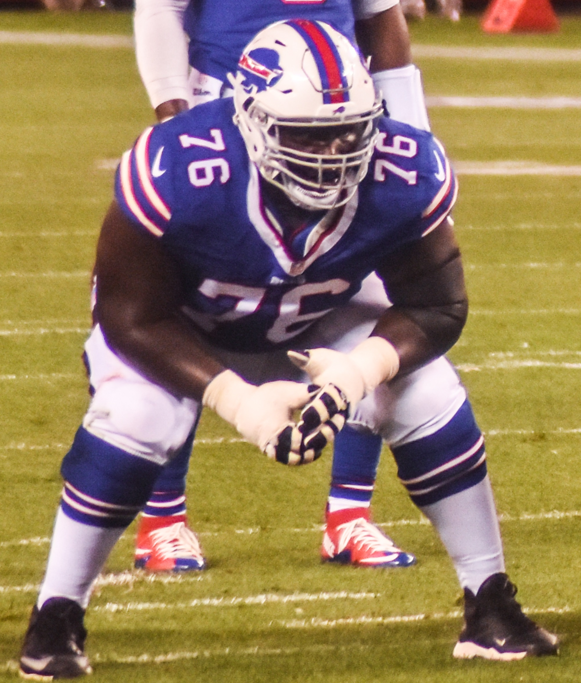 Cleveland Browns vs. Buffalo Bills